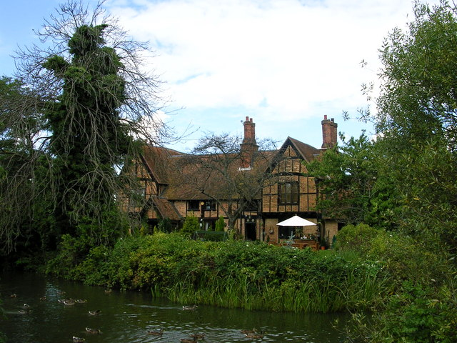 Moreteyne Manor Looking across the moat to Moreteyne Manor, now a restaurant, formerly known as Moat Farm in Marston Moretaine